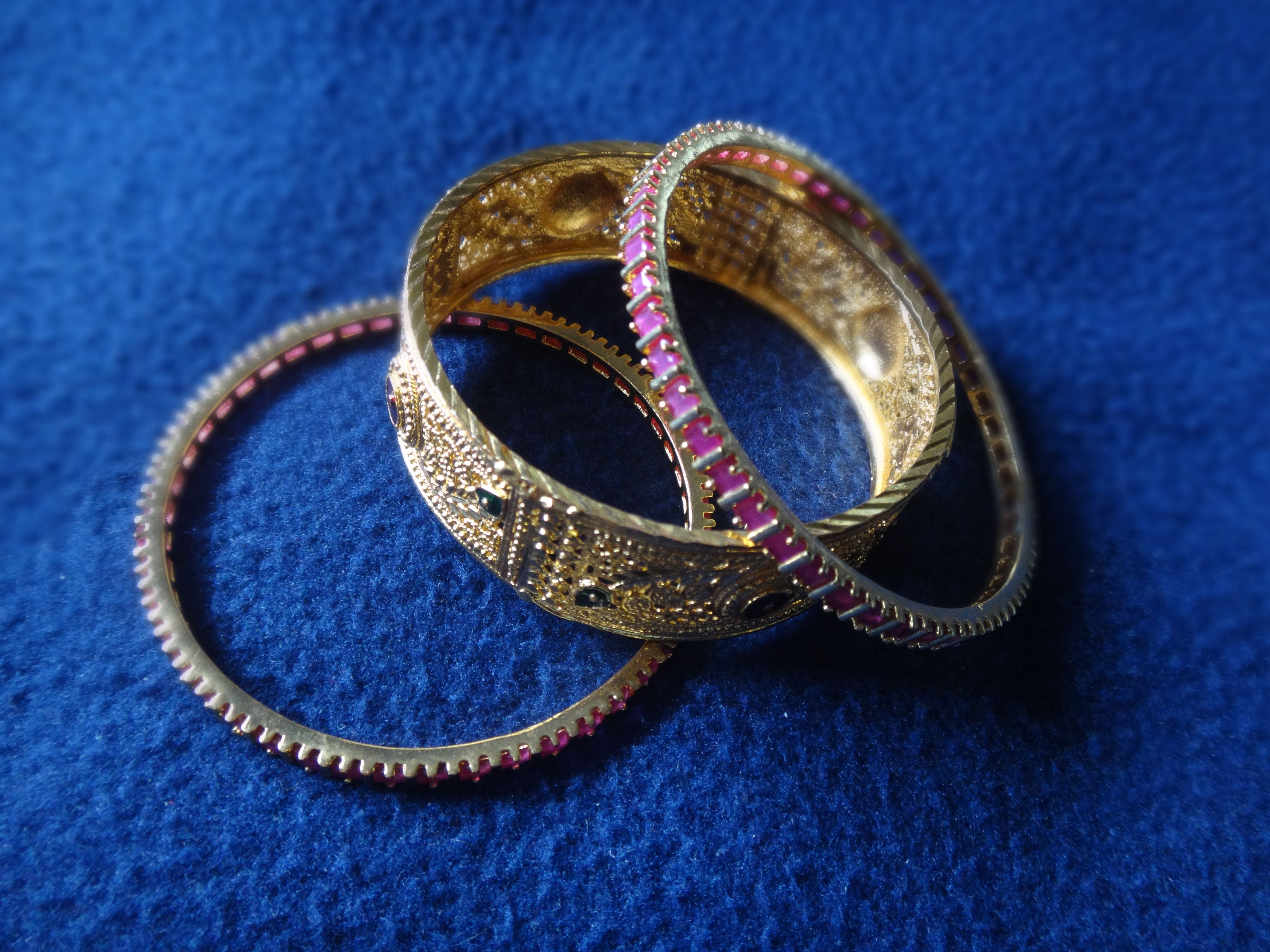 Bangles are used by women and the usage depends upon the individual desire of the woman who wears such bangles and the bangles are available in different sizes, colors and designs. During the past twenty years, there has been a hike in demand of many products that includes rare earth metals .